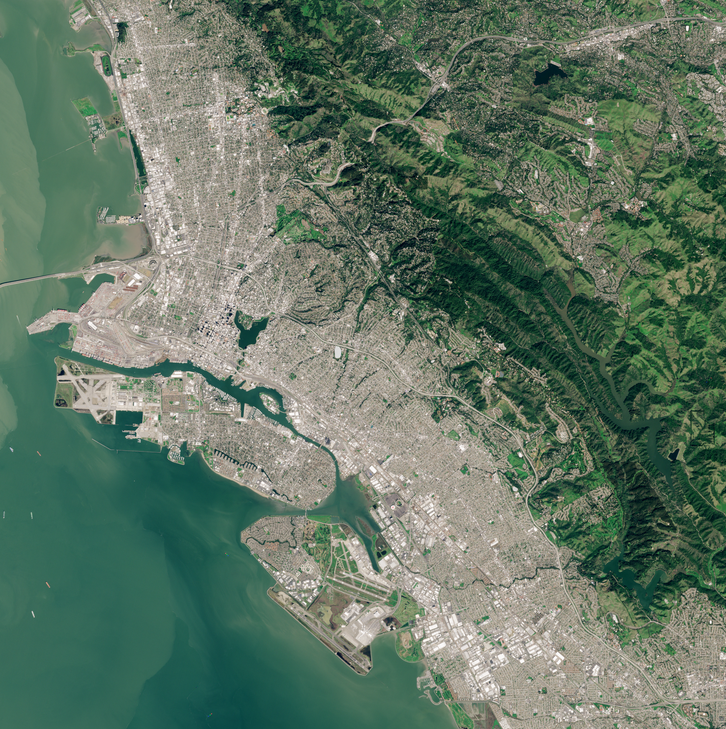 Date: 2019-03-11 Sensor: MSI on Sentinel-2A Resolution: 10m RGB Composites: True color, Band 4-3-2